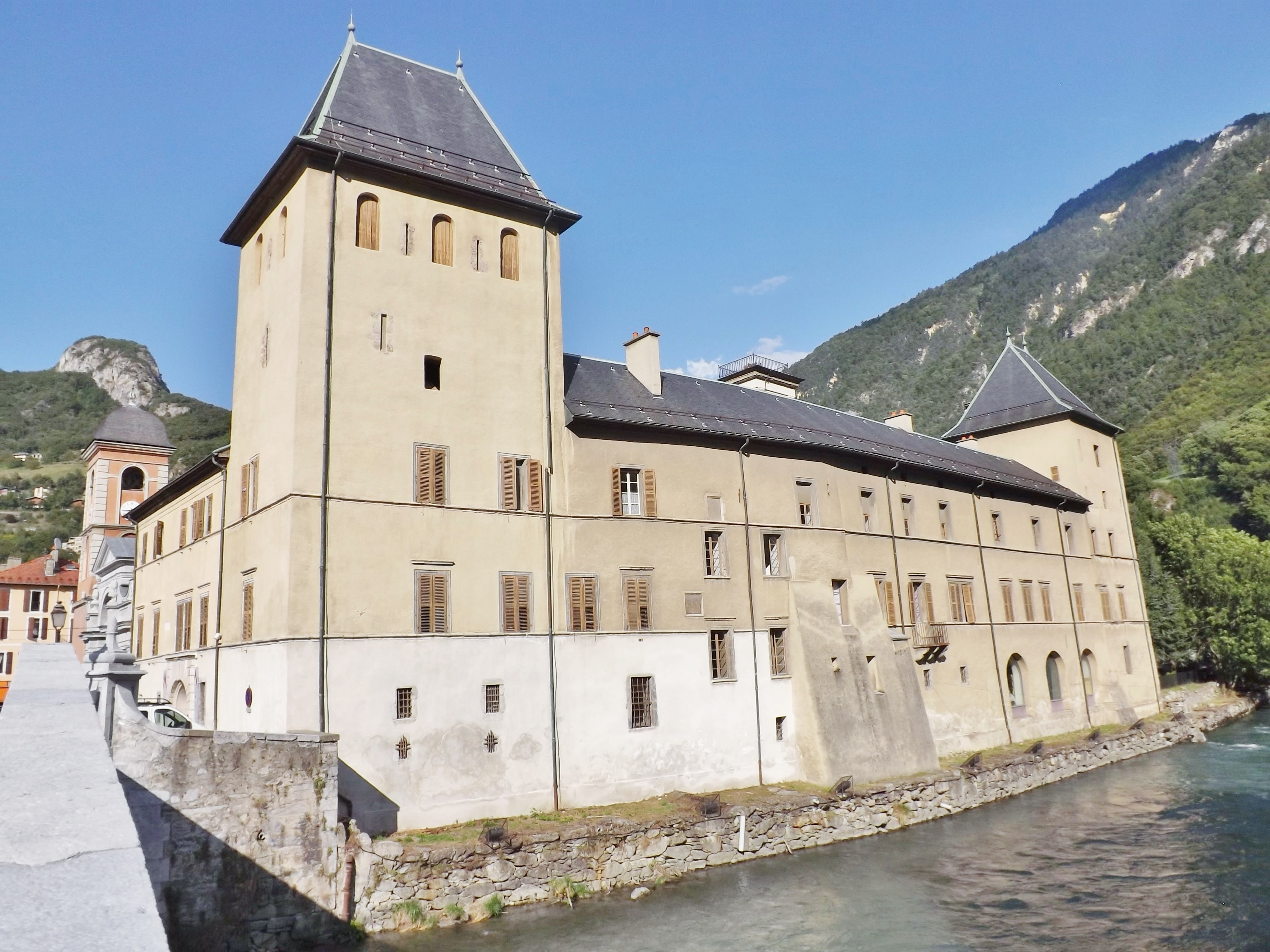 Sight of the évêché de Tarentaise bishop's palace, in Moûtiers, Savoie, France.